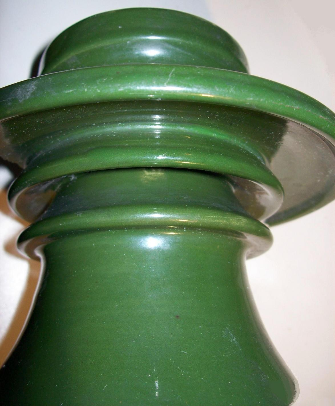 Knob insulator diameter app. 180mm, view from below